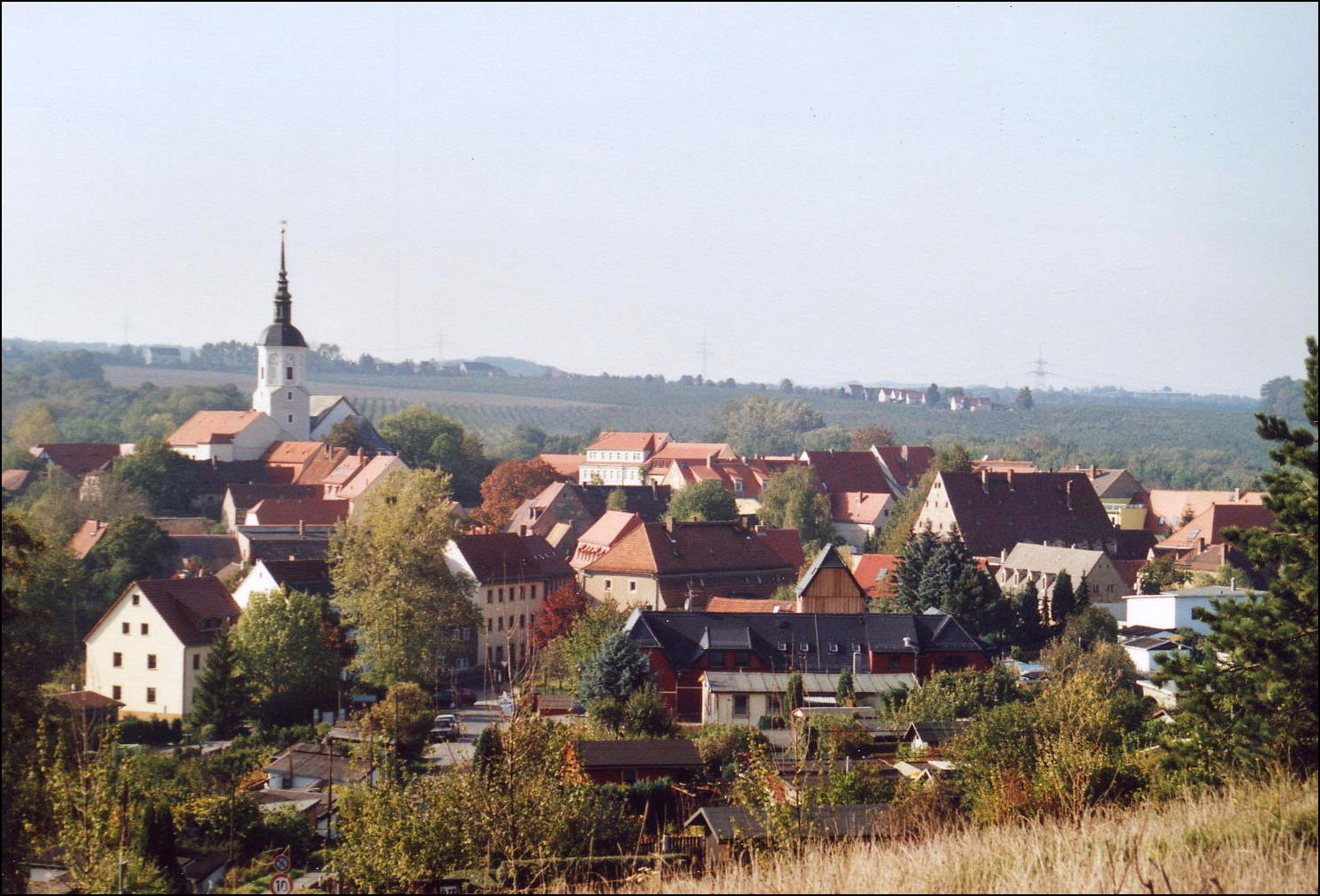 Dohna: View onto the town.